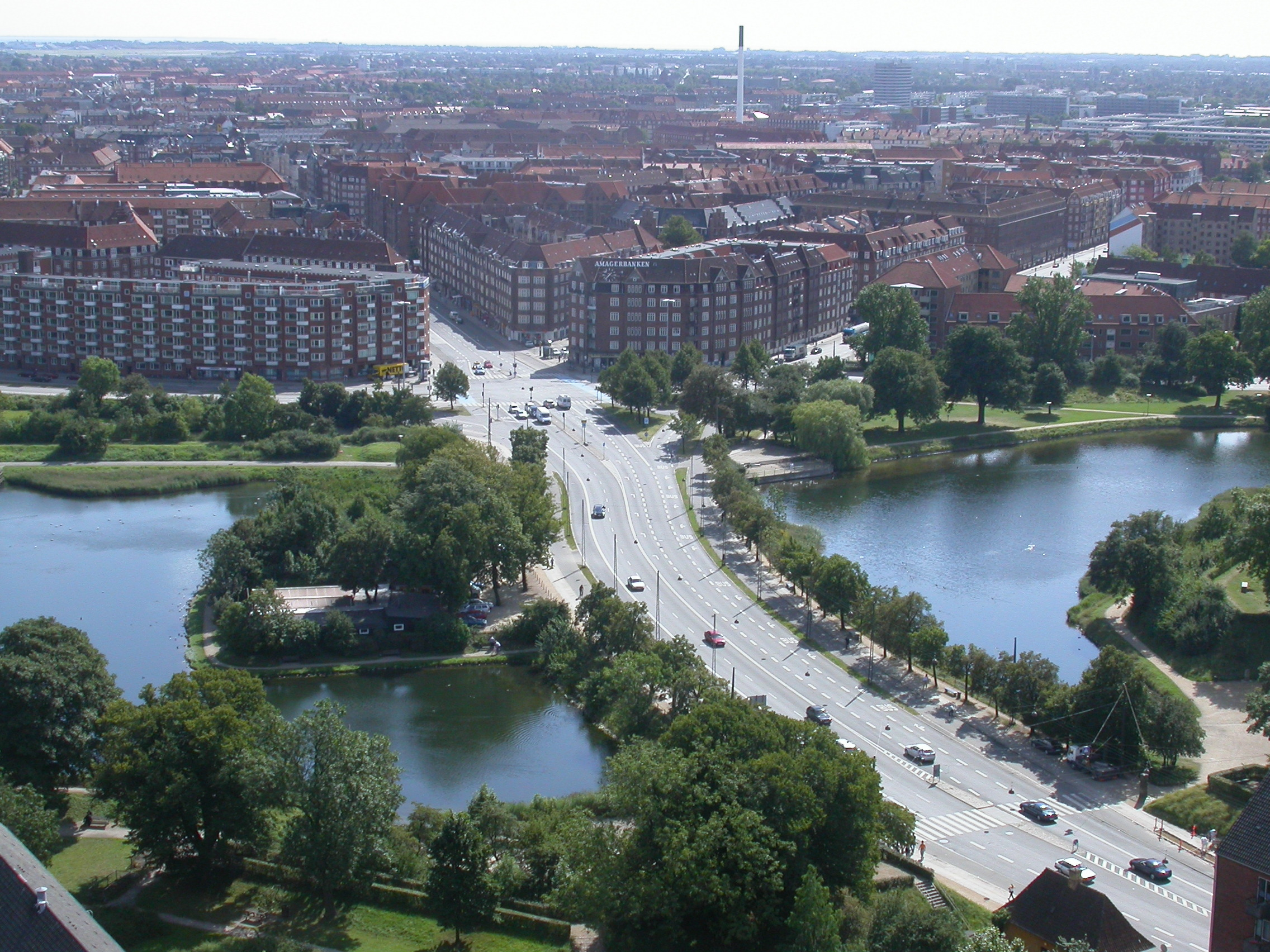 The embankment between Christianshavn and Amager across Stadsgraven in Copenhagen, Denmark. The junction on the Amager side which connects the embankment to Amagerbrogade and various other roads is called Christmas Møllers Plads